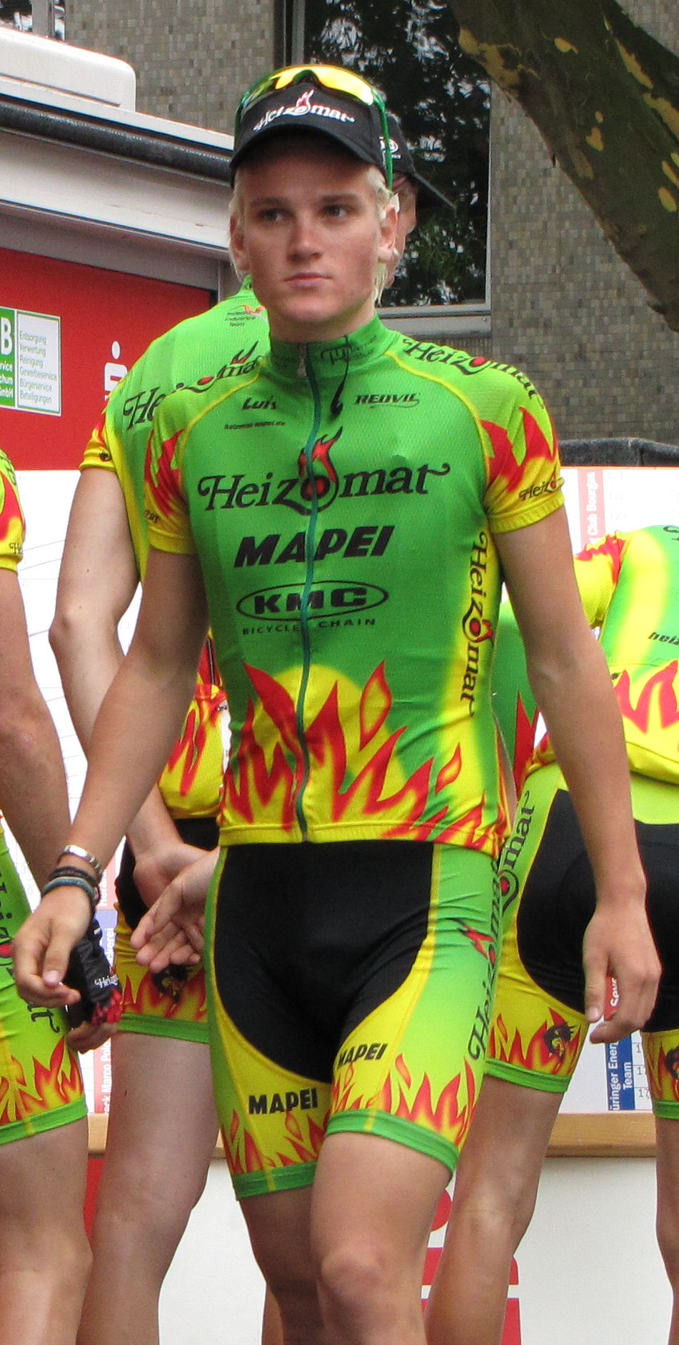 Felix Rinker